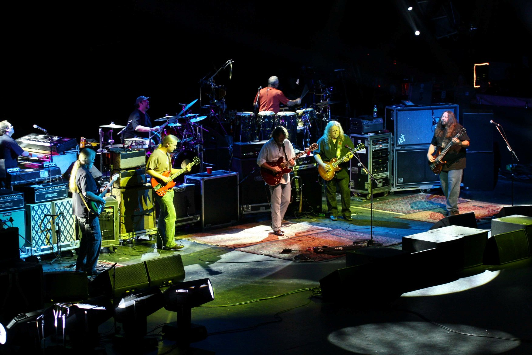 Members of The Allman Brothers perform onstage with Widespread Panic in Canandaigua, NY